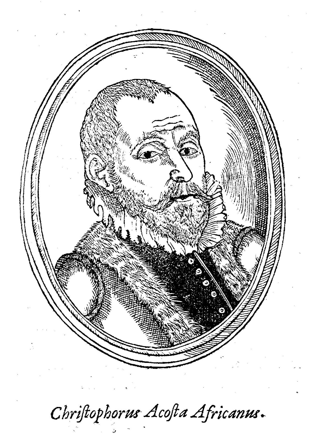 Christopher Acosta "Africanus"